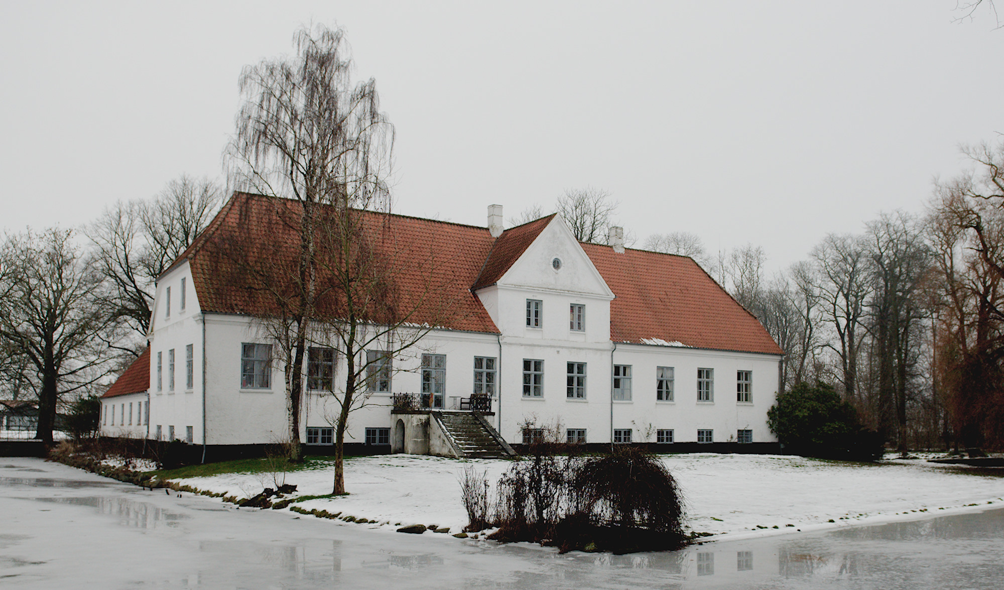 Ørritslevgård